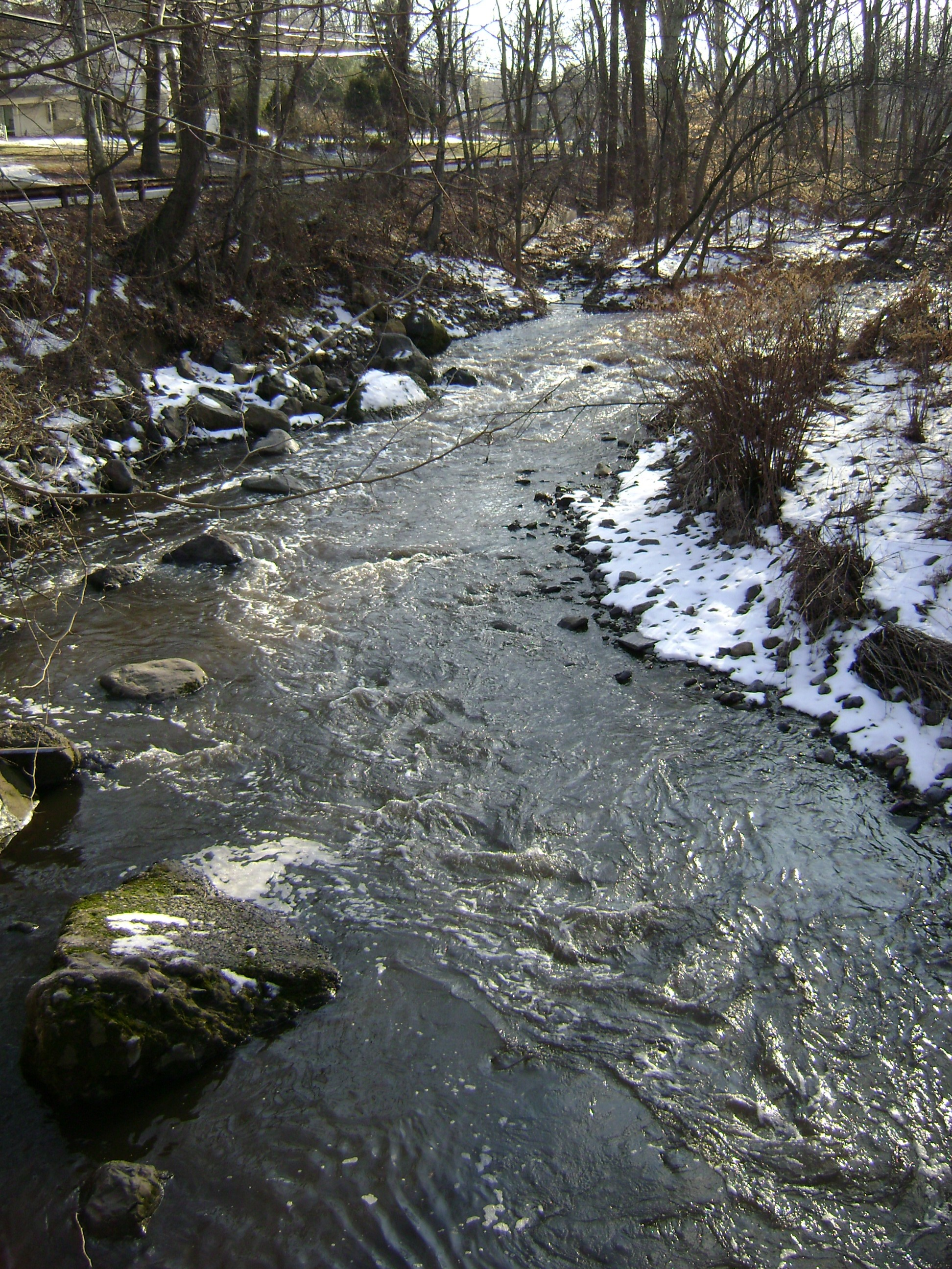 Picture of the Peckman River facing south from Commerce Road in Cedar Grove, New Jersey. Little Falls Road is visible in the background paralleling the river.